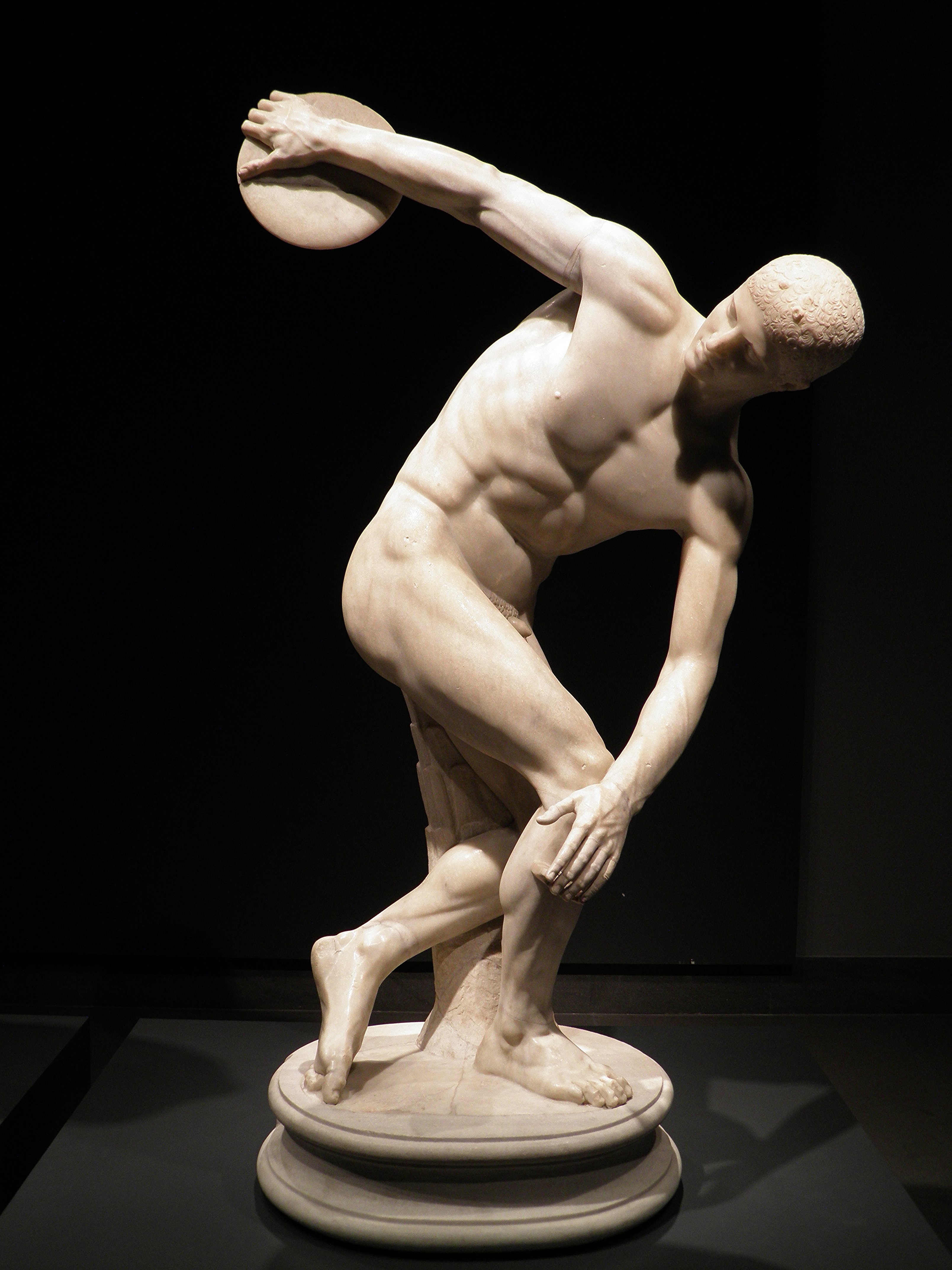 The Discobolus Lancellotti, Roman copy of a 5th century BC Greek original by Myron, Hadrianic period, Palazzo Massimo alle Terme